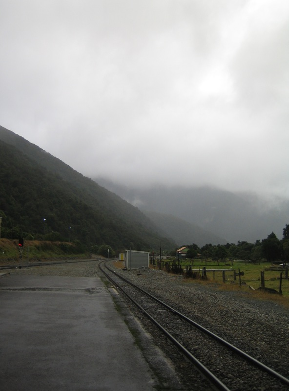 Otira Railway Station, New Zealand